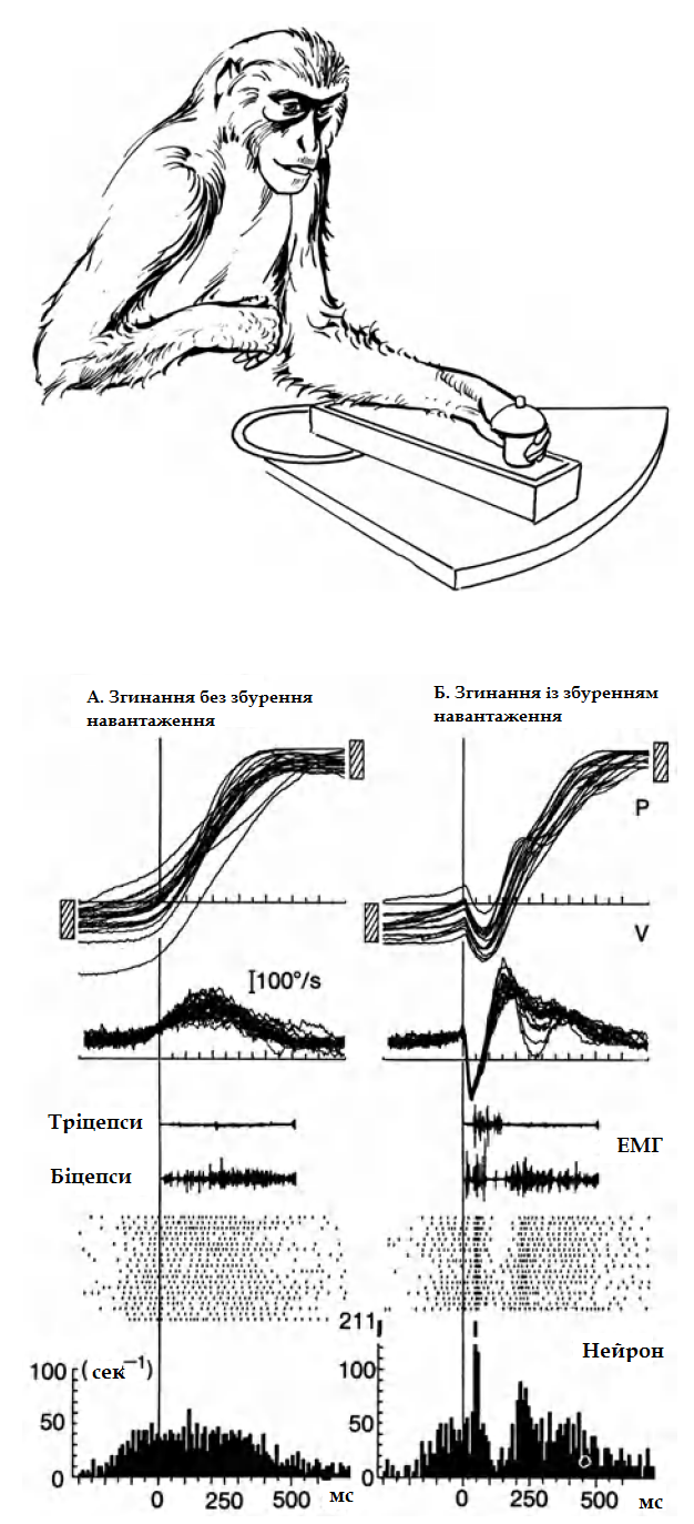 Activity pattern of a cell in the motor cortex, recordered during execution of a motor task